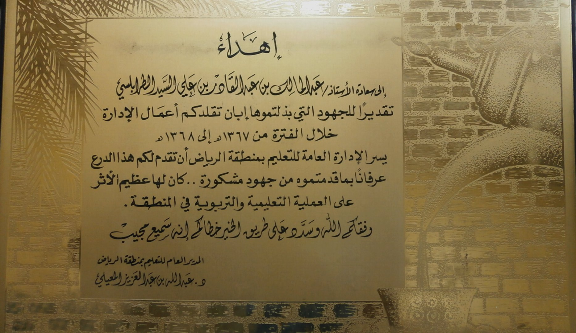 A tribute from the General Administration for Education in Riyadh to Abdelmalik Benali